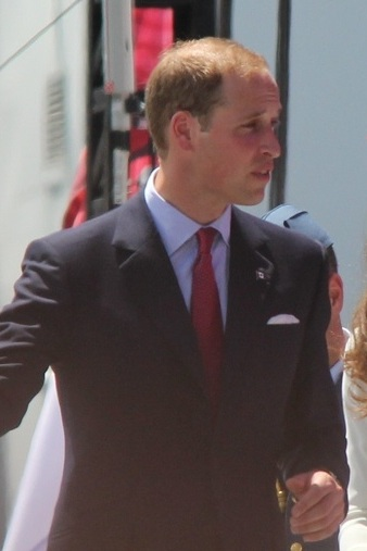 Prince William, Duke of Cambridge, on his first royal tour after his marriage, visiting Ottawa for Canada Day celebrations.